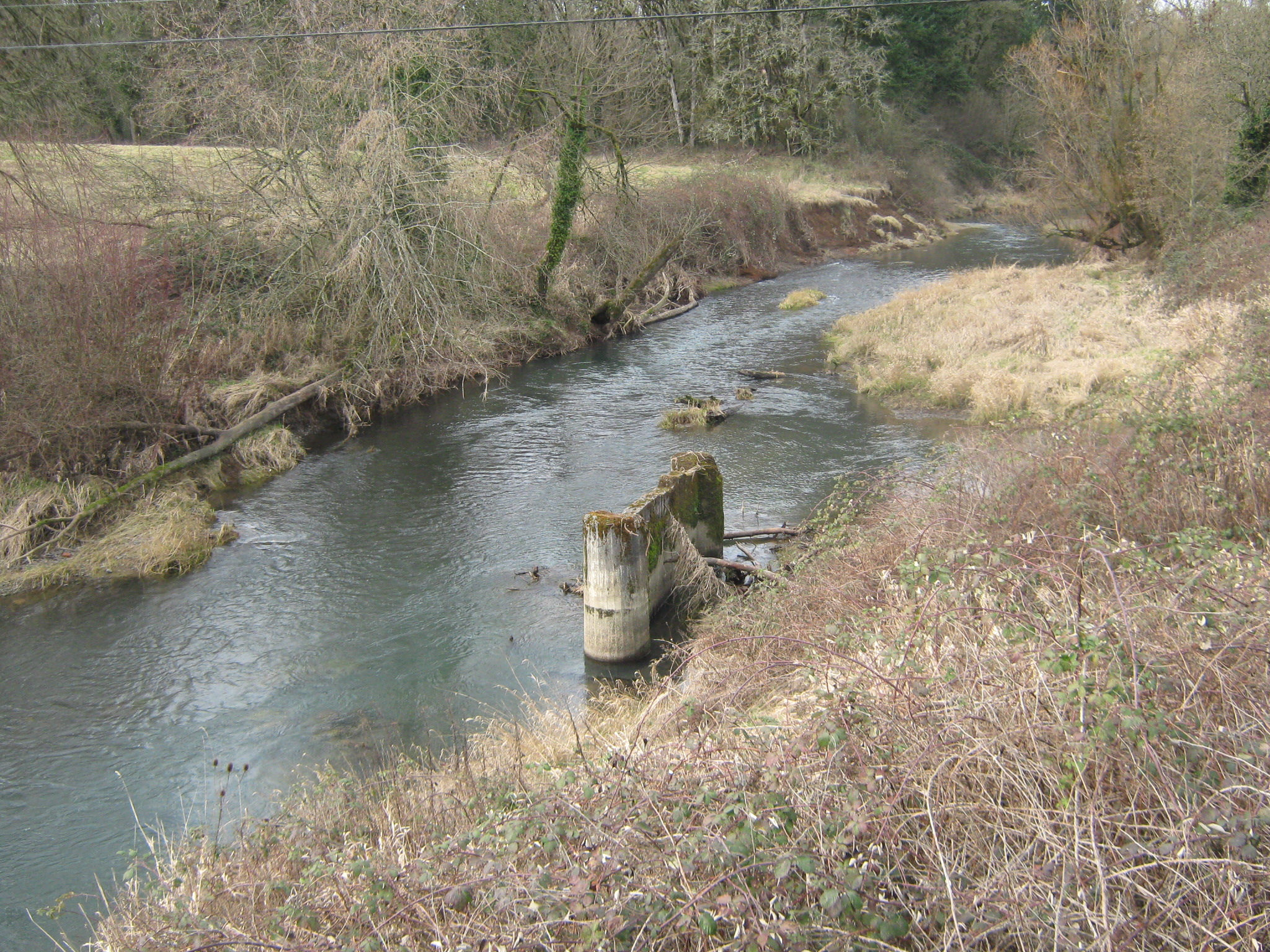 Rickreall Creek in Rickreall, Polk County, Oregon, where it is crossed by Oregon Route 99W. Note the old bridge abutment. Per Rickreall Junction Transportation Facility Plan: "Oregon 99W was constructed through the community of Rickreall in the early 1920s following an existing road. A covered bridge was originally constructed over Rickreall Creek in the 1910s, but was replaced by a concrete slab bridge in 1923. That bridge was replaced in 1960."